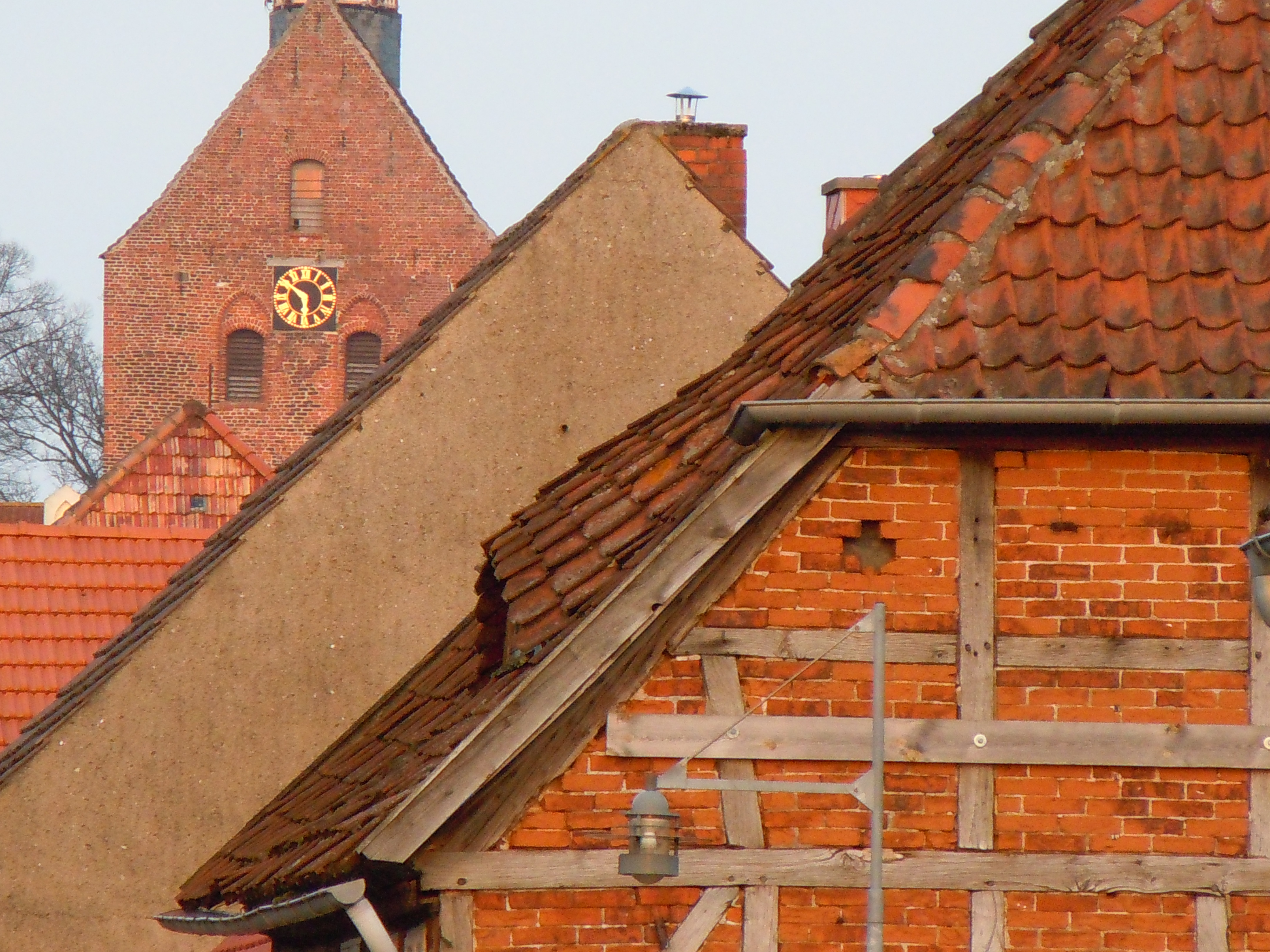 View on Dassow